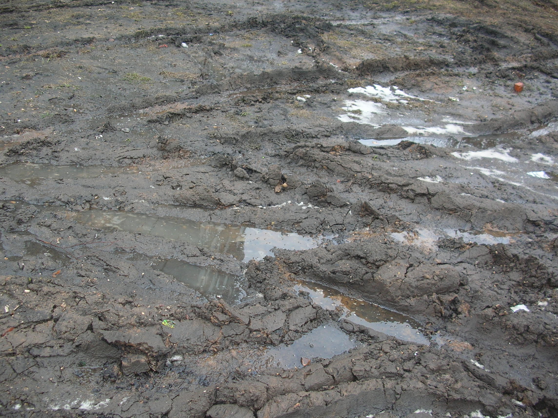 Mud in Moscow